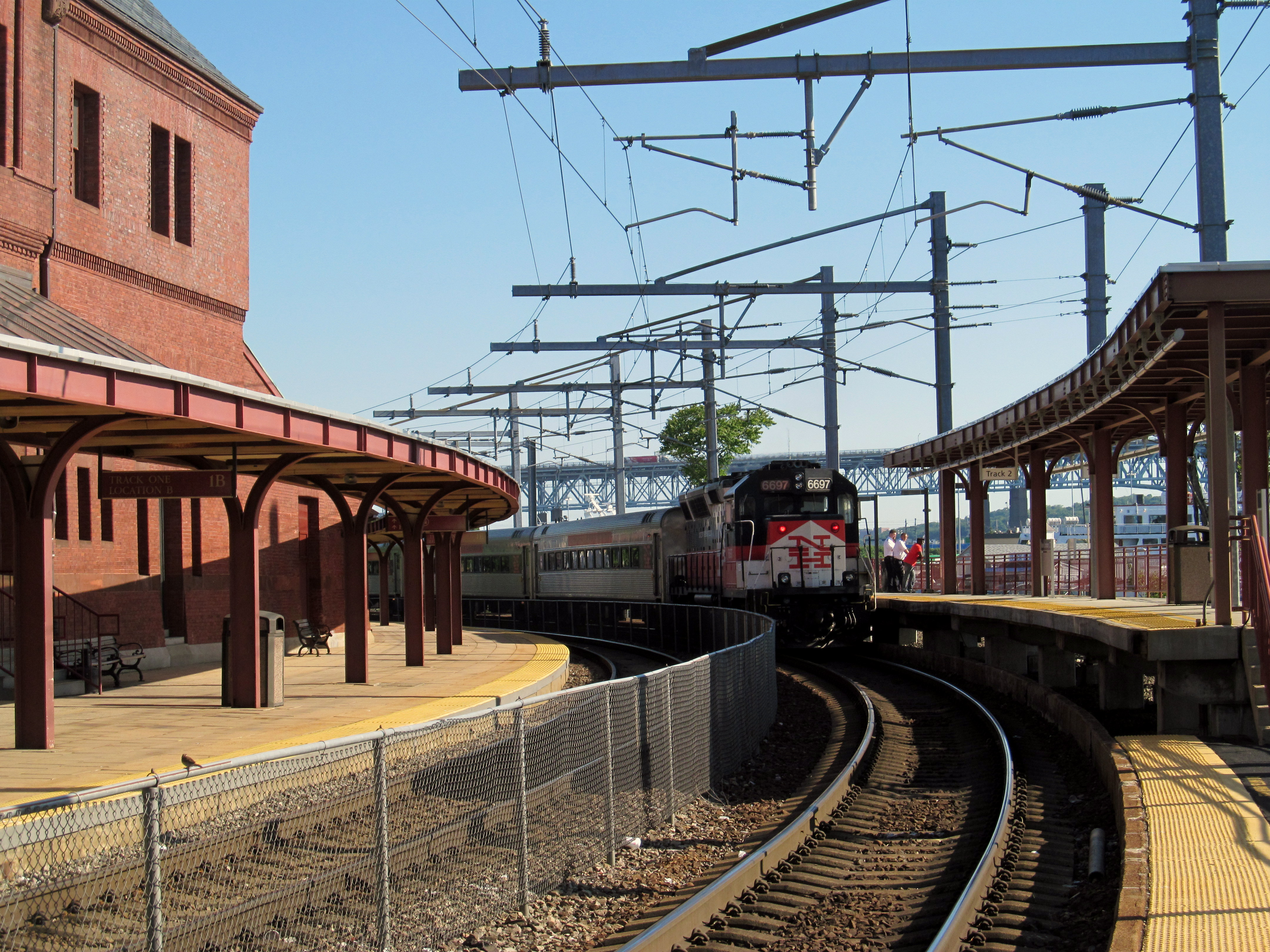 A Shore Line East train at New London Union Station in June 2013